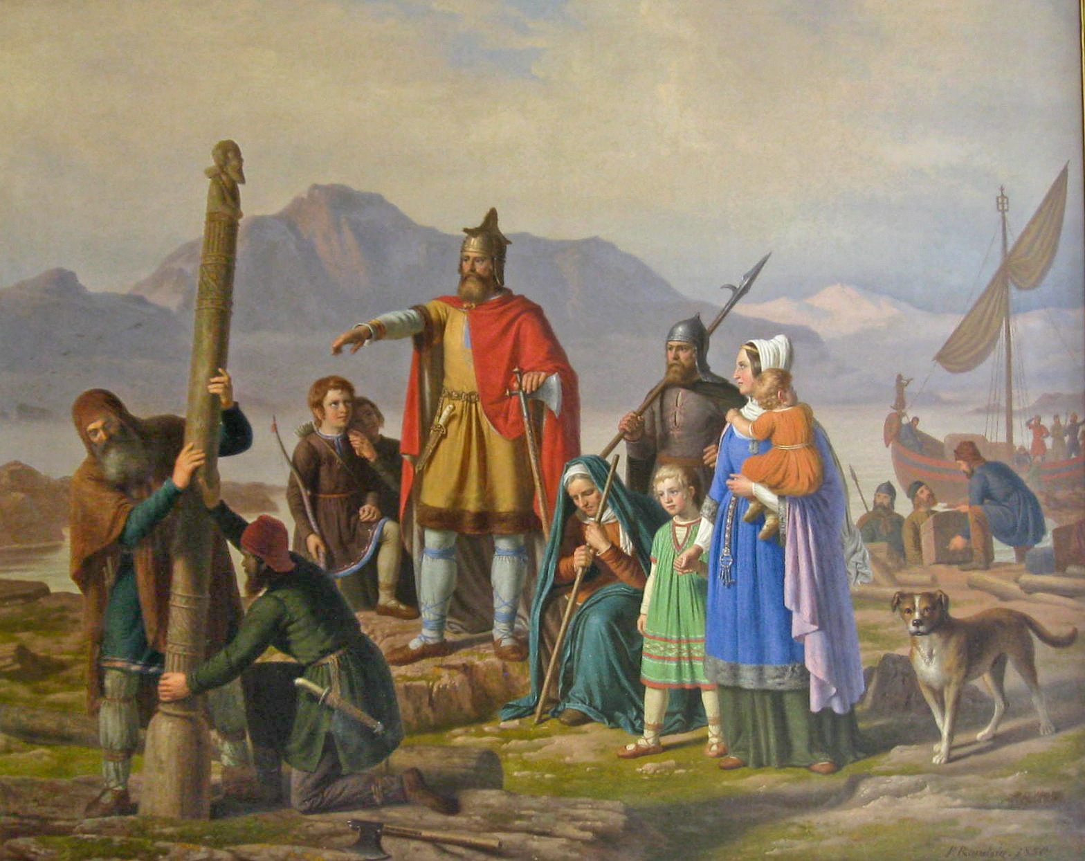 The painting depicts Ingólfr Arnarson, the first settler of Iceland, newly arrived in Reykjavík. He appears to be commanding his men, perhaps his slaves, to erect his high seat pillars. Several other people and a dog look on while others are unloading a nearby ship. In the background there are mountains. At the time the photograph was taken, the painting was on public display in Viðeyjarstofa in Viðey. A plaque explains that it was a gift to the City of Reykjavík from Eimskipafélag Íslands on the occasion of the 200th birthday of Reykjavík (which was in 1986). The plaque does not give any information about the artist but a quick Googling for the signature "P. Raadsig" and "Ingolf" reveals the name of the painting and information about the artist. The picture was taken under natural lighting with a hand-held digital camera. The right side of the painting was placed closer to a window when the picture was taken. These factors contribute to the mediocre quality of the reproduction.